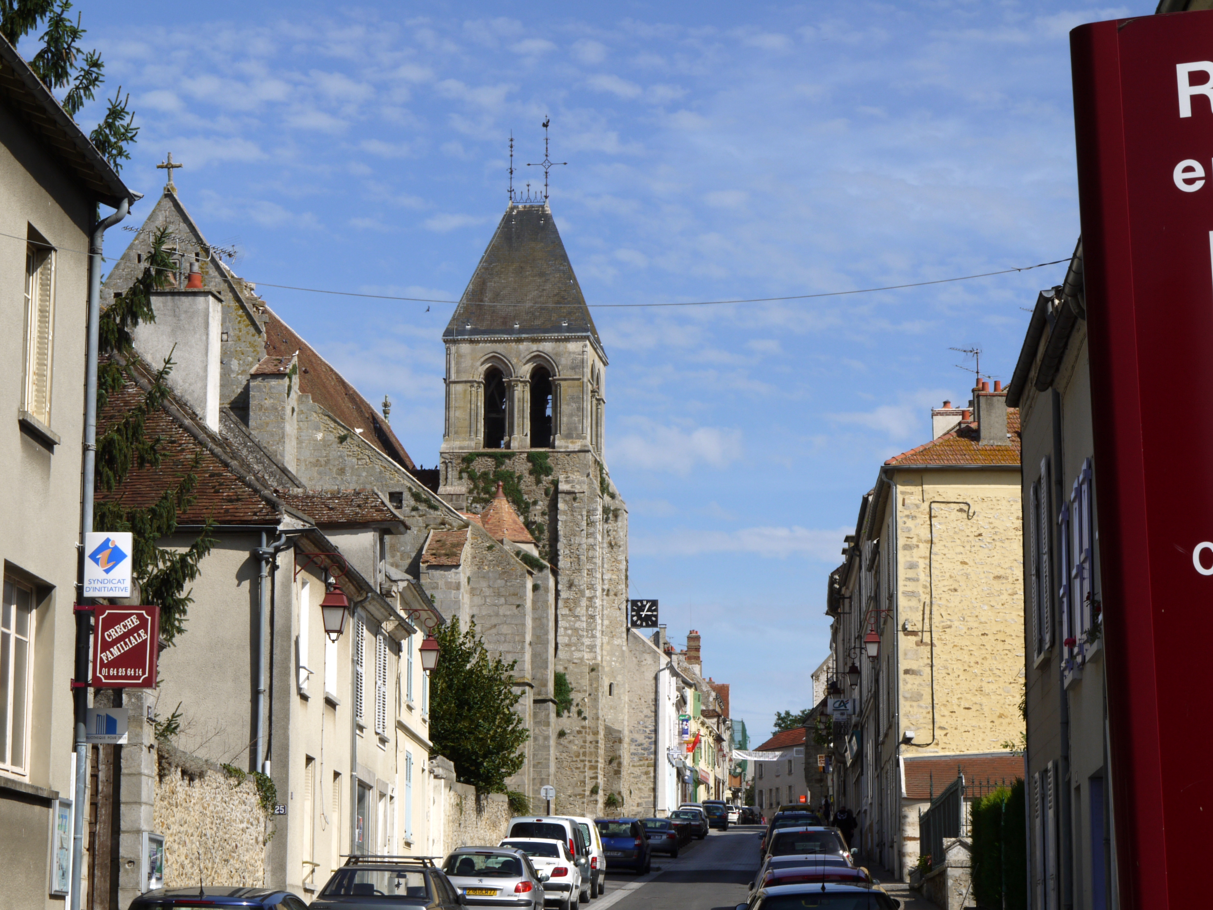 Church of Rozay_en_Brie, Seine et Marne, Ile de France